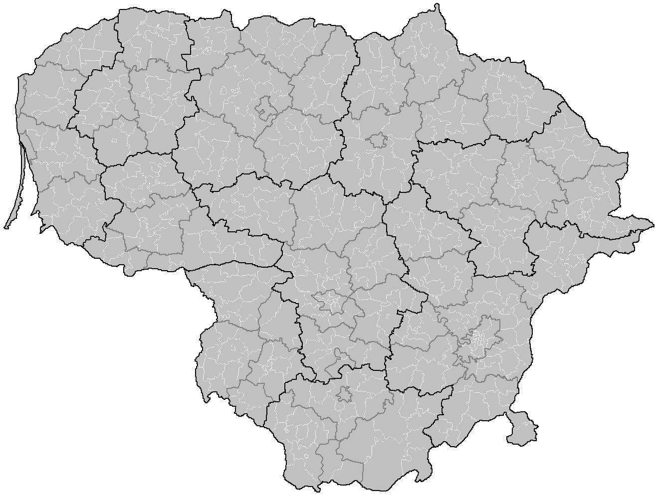 Map of the elderships of Lithuania. Created by Rarelibra 14:38, 17 March 2008 (UTC) for public domain use, using MapInfo Professional v8.5 and various mapping resources.